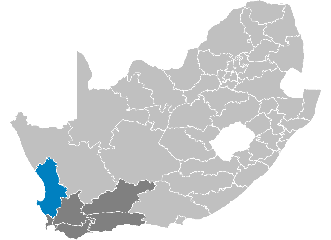 Map showing the West Coast District Municipality higlighted within the Western Cape.